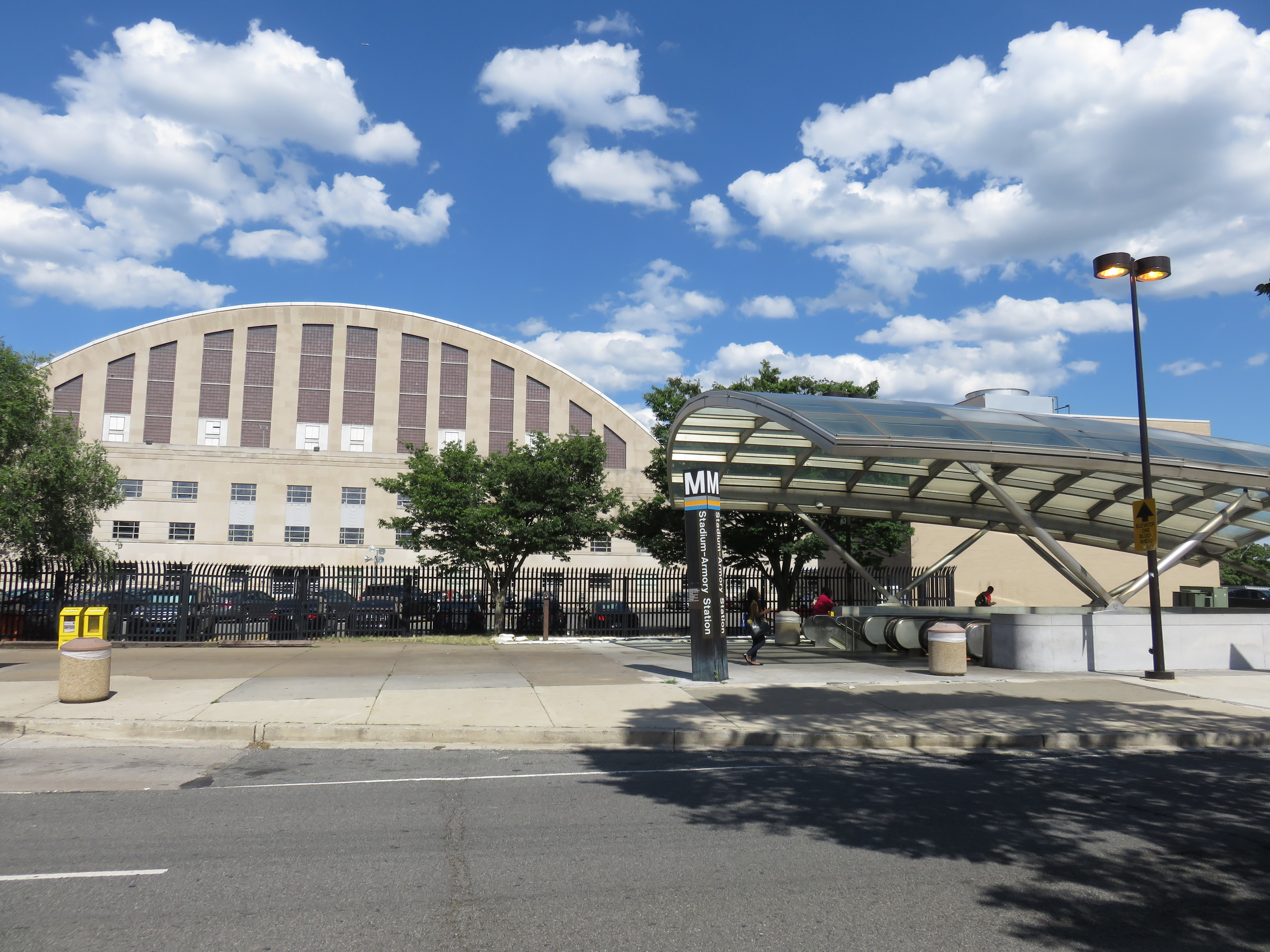 Headhouse of the Stadium–Armory Washington Metro station in 2017